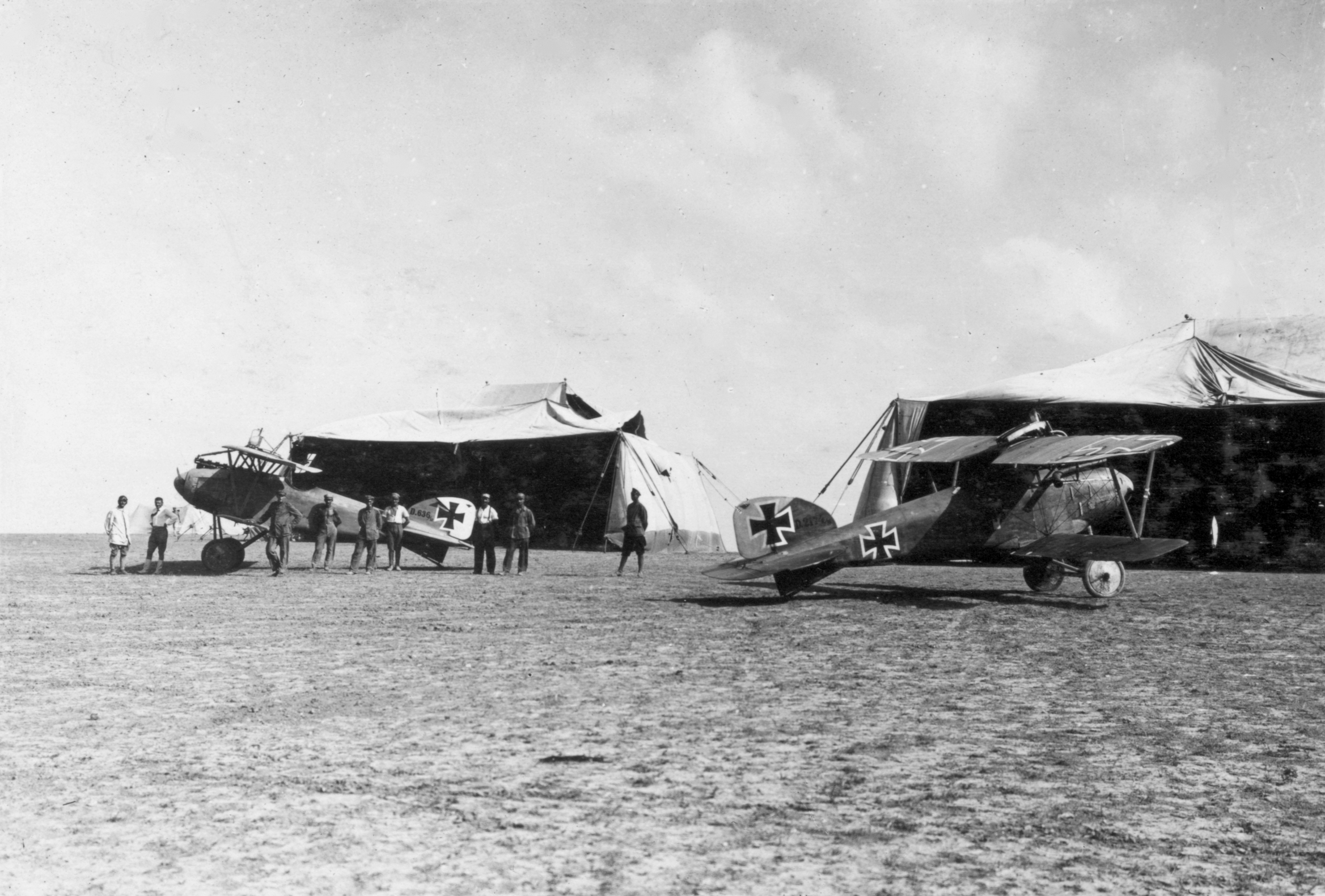 German Albatros D.III fighters from Flieger Abteilung 300 on the airfield at Huj, 15 km north-east of Gaza. On the left is Albatros D.III 636/17 which arrived in Palestine in June 1917. It was downed by Australian forces and captured with its pilot Lt. Dittmar on 8 October 1917. On the right is Albatros D.III 2174/16.